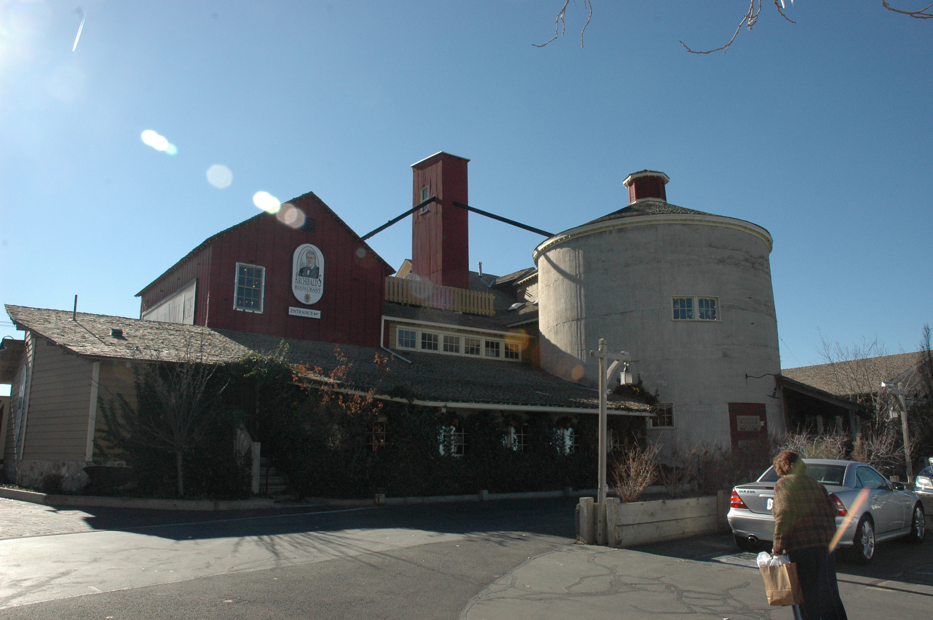 The Gardner Mill, a historic building in West Jordan, Utah, United States. The centerpiece of the Gardner Village shopping center, it now houses a restaurant and furniture store.